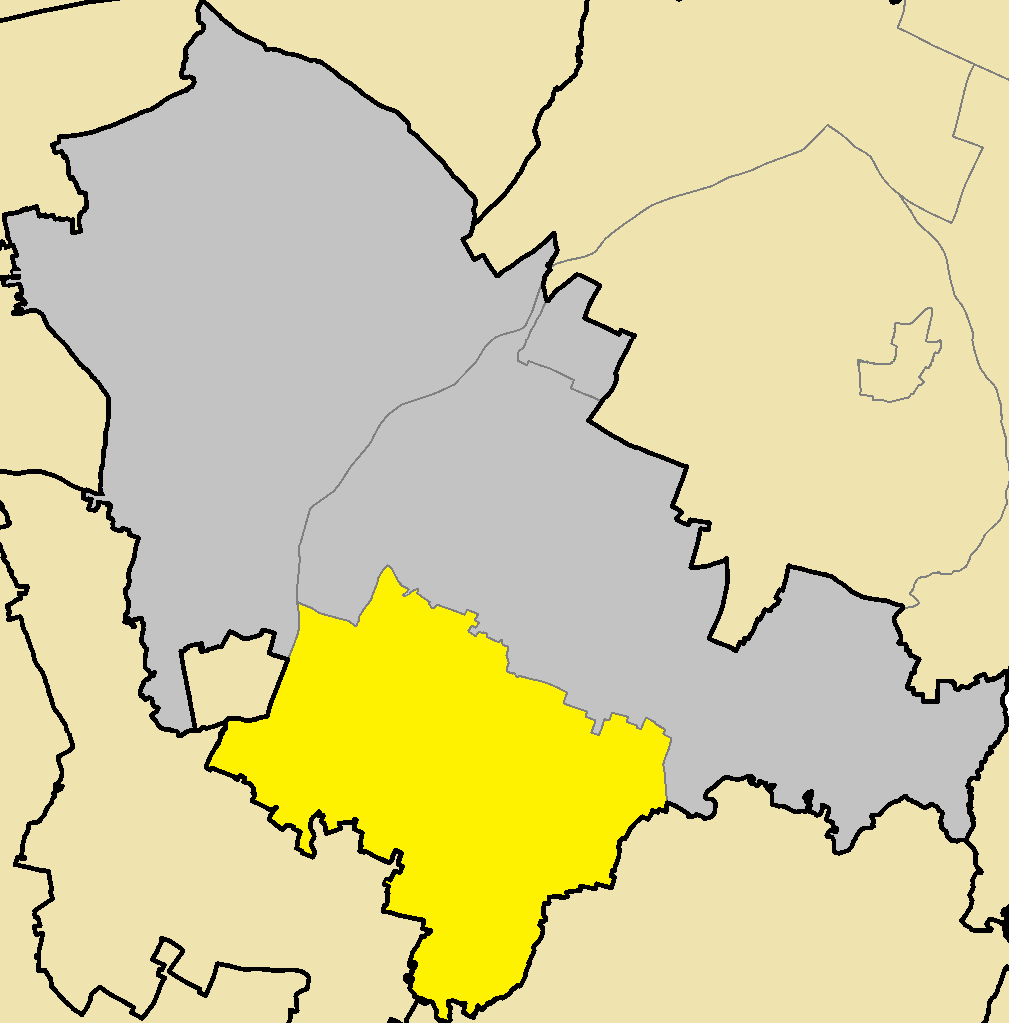 Agios Nikolaos in Lakatamia.